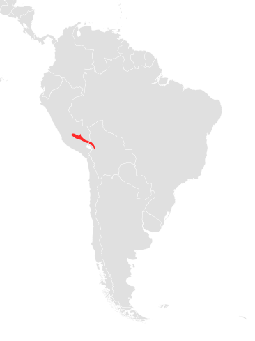 Distribution of Carollia manu